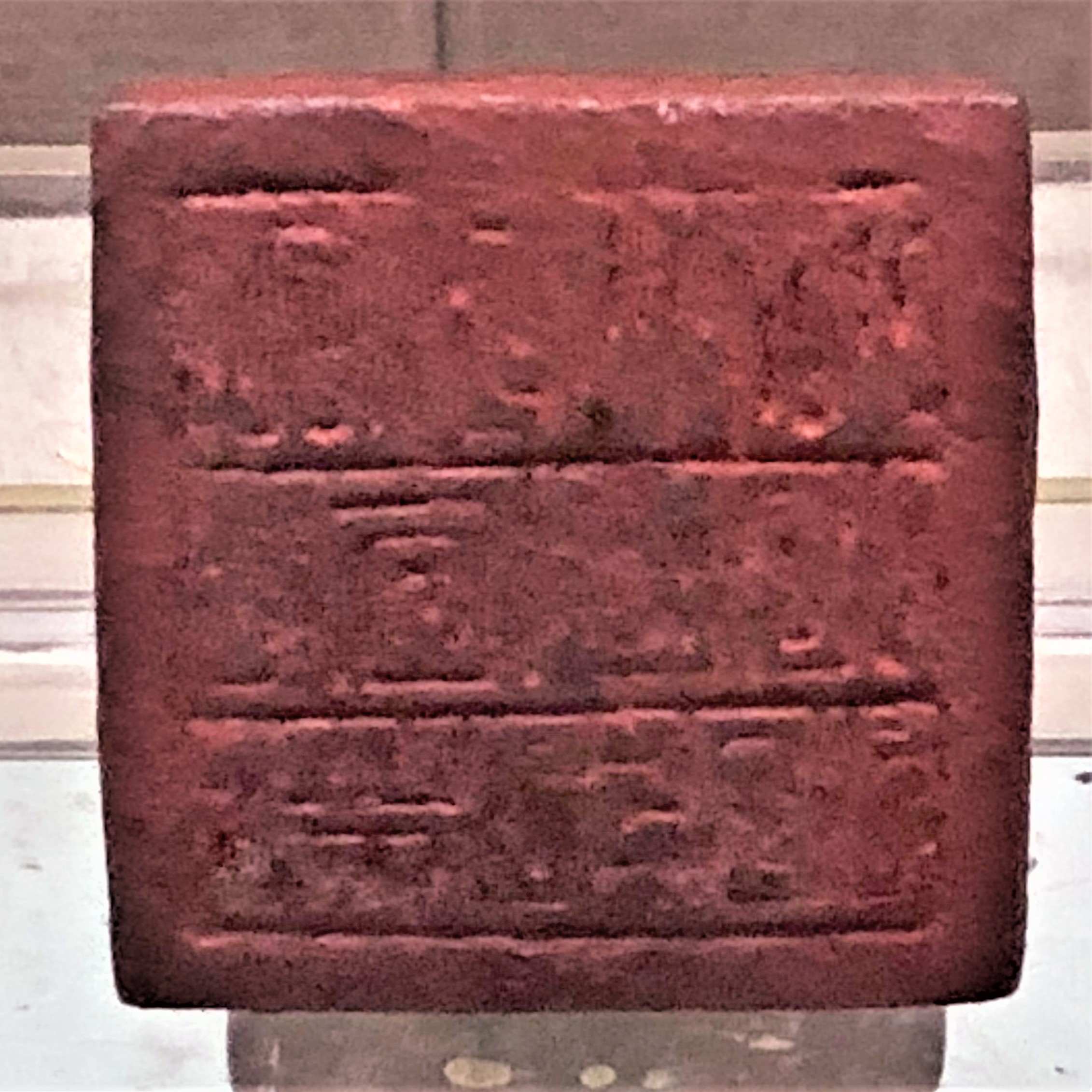 车里军民总管府印 公元1293年